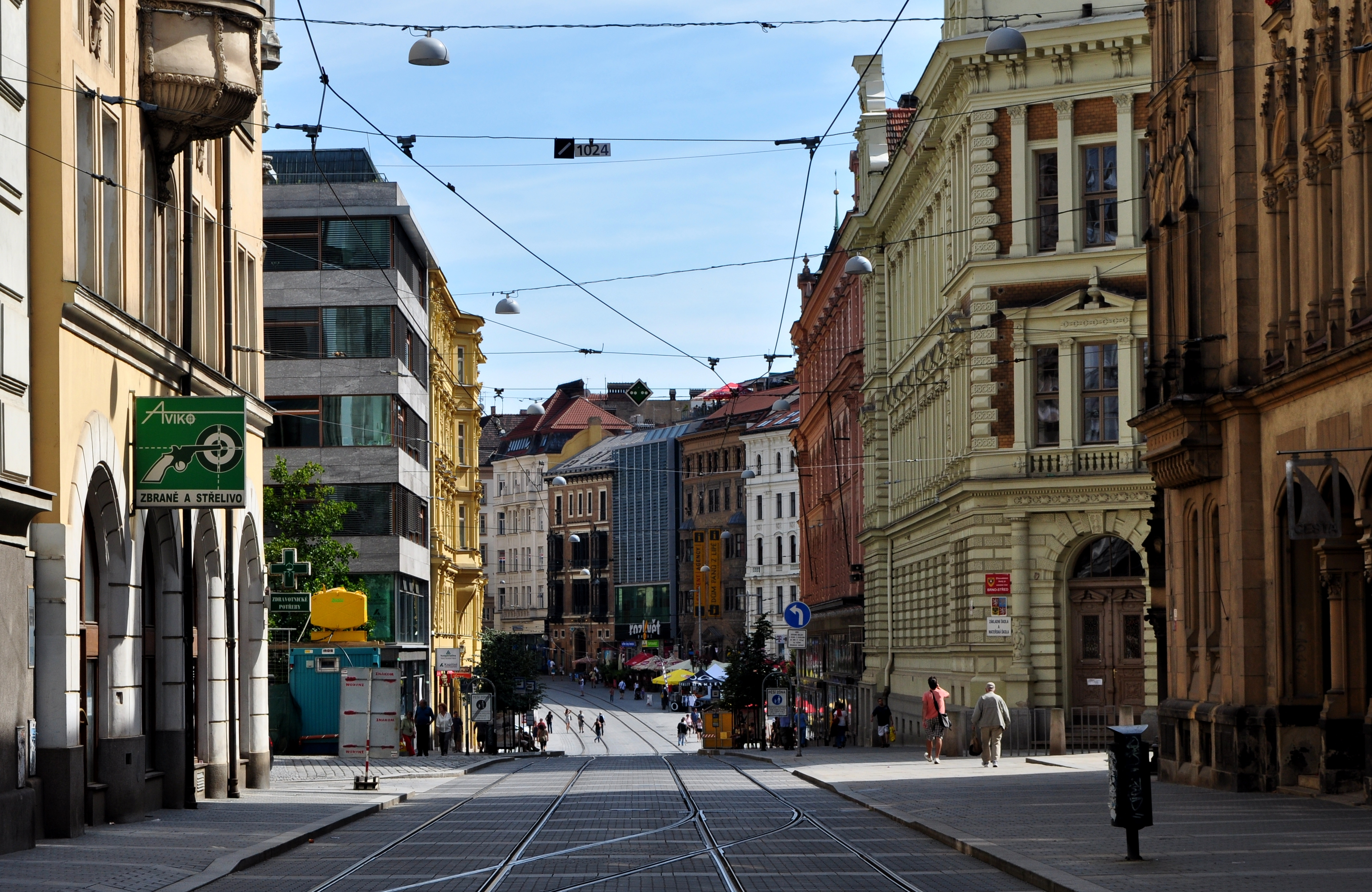 Rašínova street